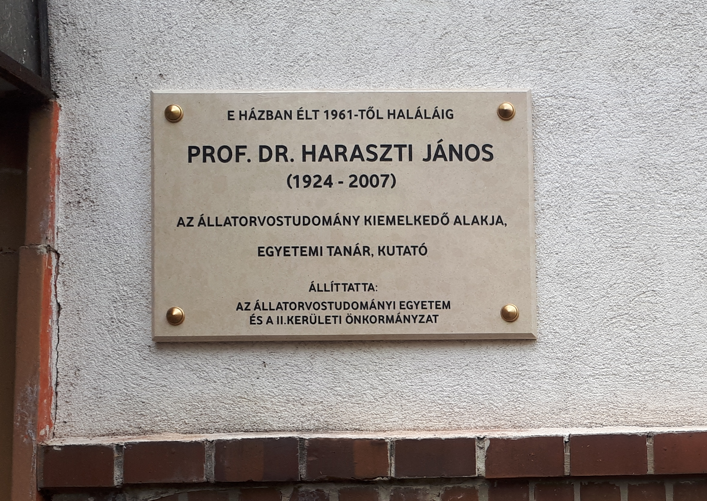 Memorial plaque of professor János Haraszti at Gyergyó street in Budapest